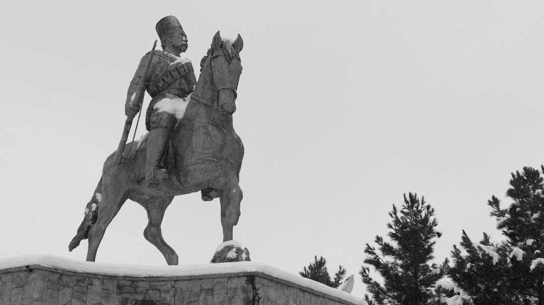 Sattar Khan statute